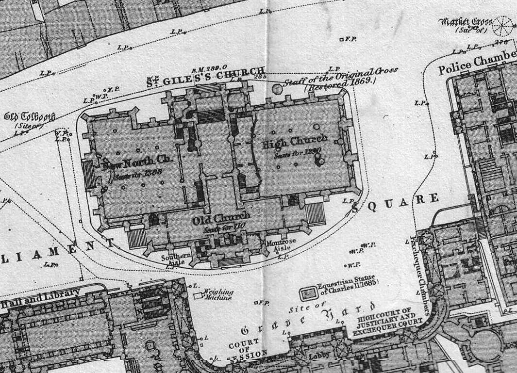 Plan of St Giles' Cathedral, Edinburgh, Scotland in 1877